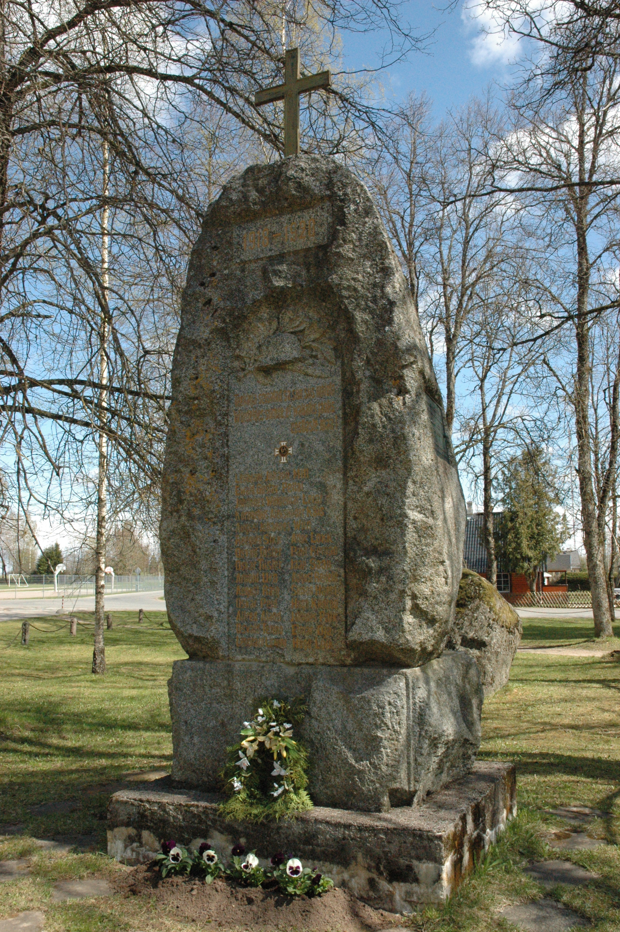 Memorial in Kanepi, Estonia.